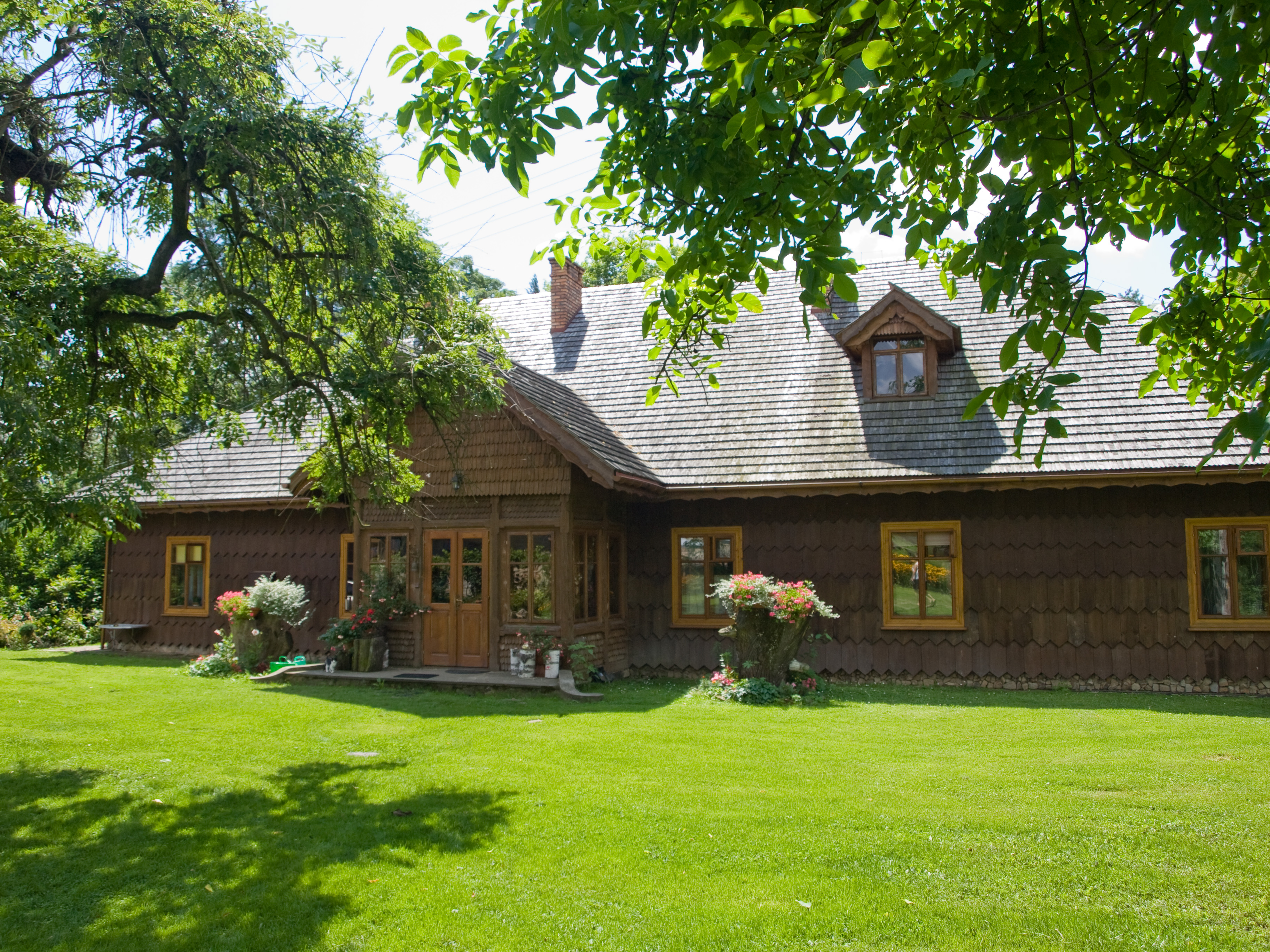 Manor house, Trześniów, Subcarpathian Voivodeship